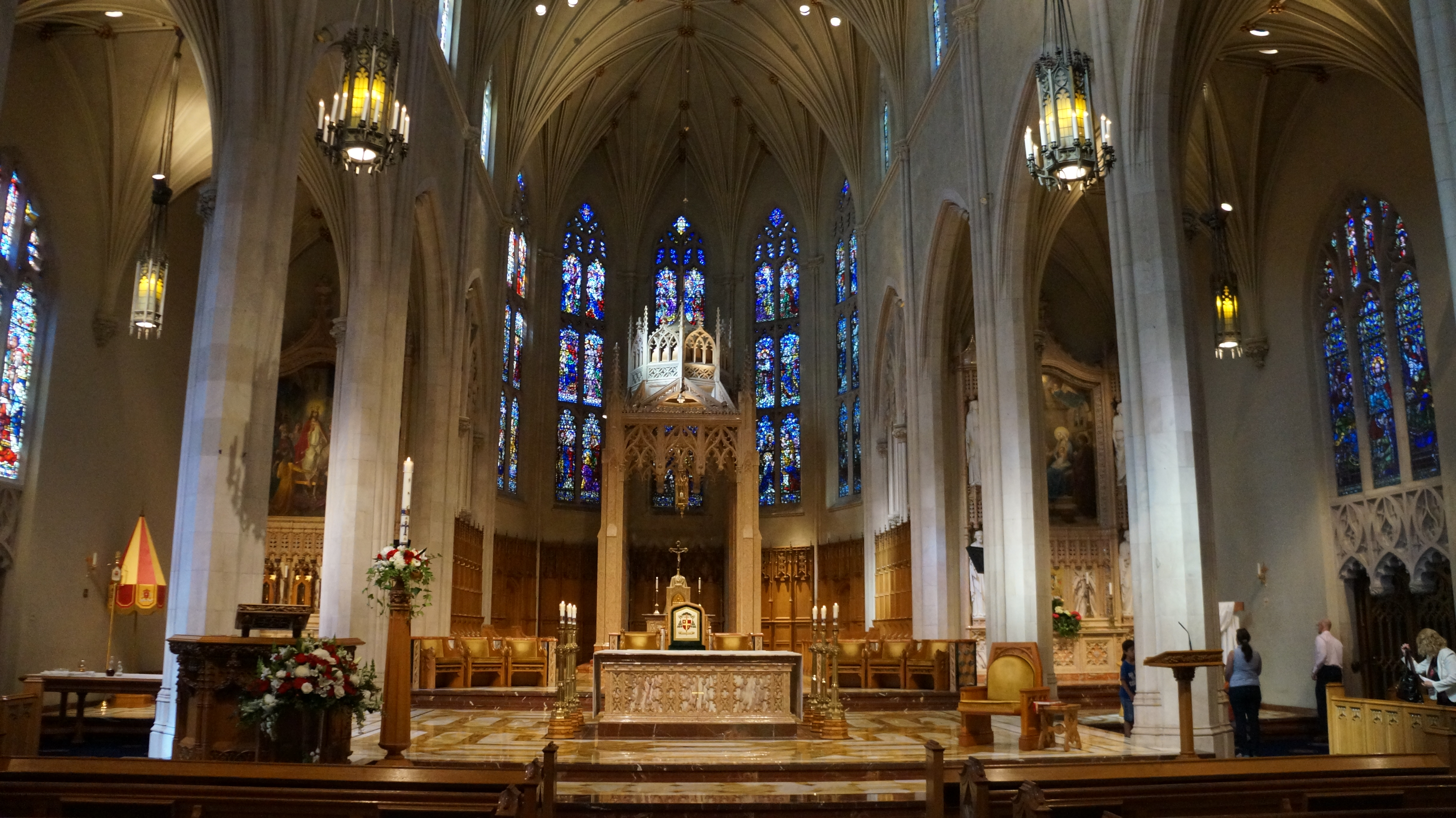 The interior of the Cathedral Basilica of Christ the King in Hamilton, Ontario.